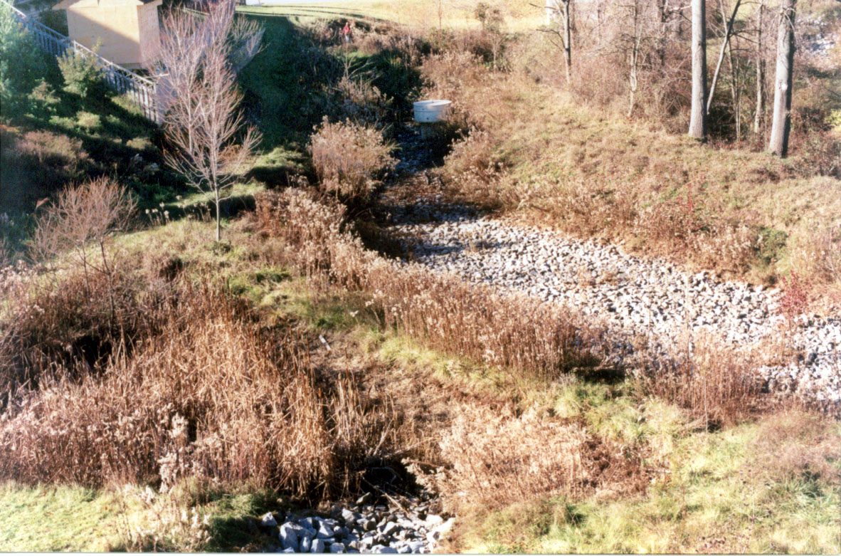 View of percolation trench in U.S. Designed for treating stormwater runoff.